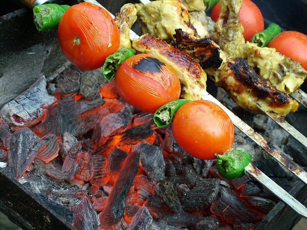 Jujeh kabab with tomato and pepper.